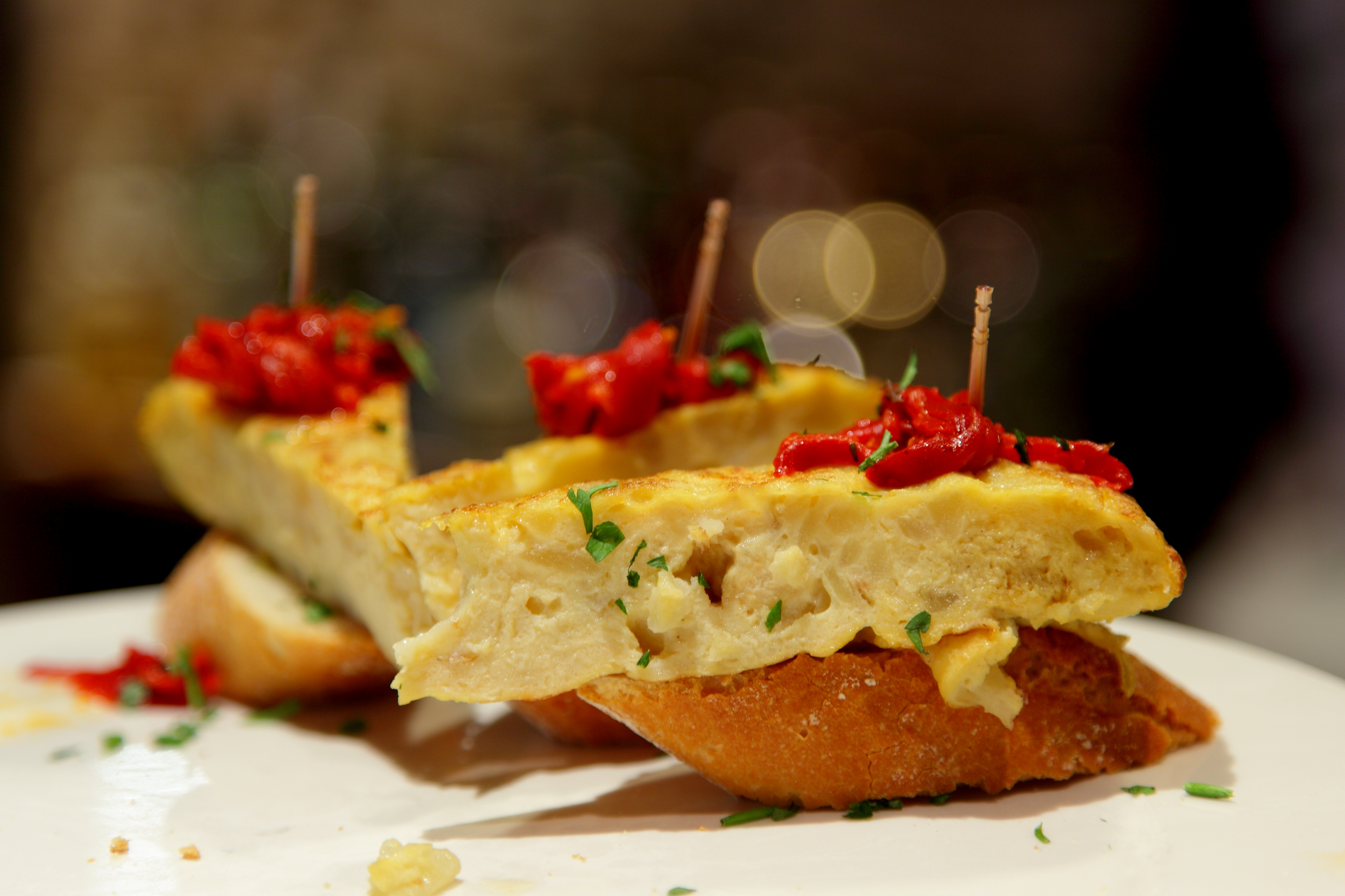 A pincho (Spanish; literally, thorn or spike) or pintxo (Basque) is the name of certain snacks typically eaten in bars, traditional in northern Spain and especially popular in the Basque country. Originating in the Basque Country, they are usually eaten in bars or taverns as a small snack while hanging out with friends or relatives; thus, they have a strong socializing component, and they are usually regarded as a cornerstone of Basque Culture and Society. They are related to tapas, the main difference being that pinchos are ordered and eaten individually, whilst tapas are usually a small portion of food to be shared. In addition, tapas are served on a small dish, whist pinchos are generally arranged on bread slices.